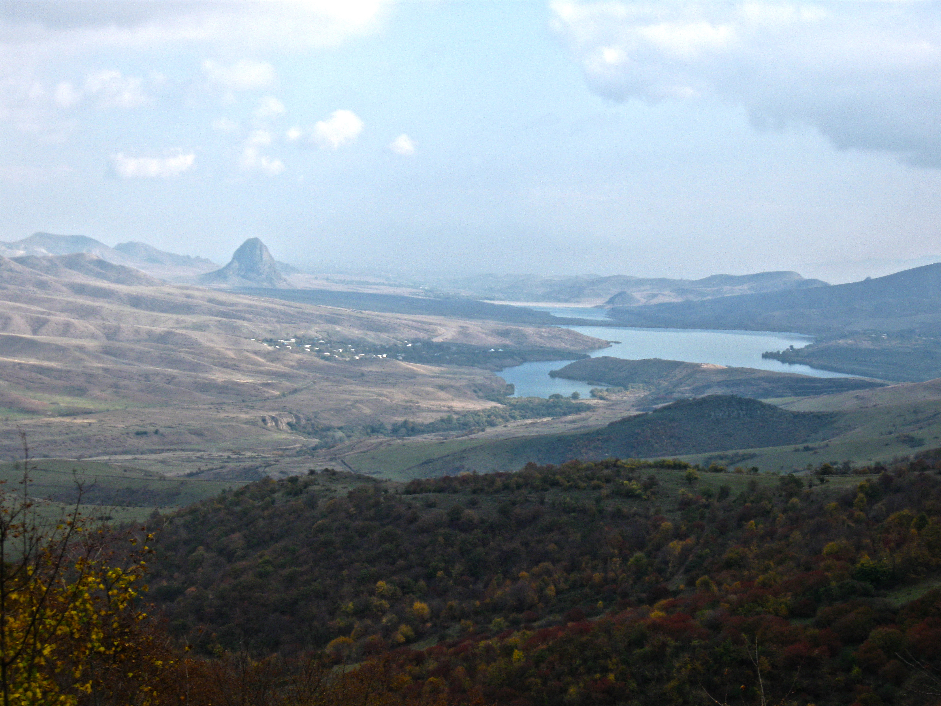 Armenian-Azerbaijani border. Left: Armenian village Kirants